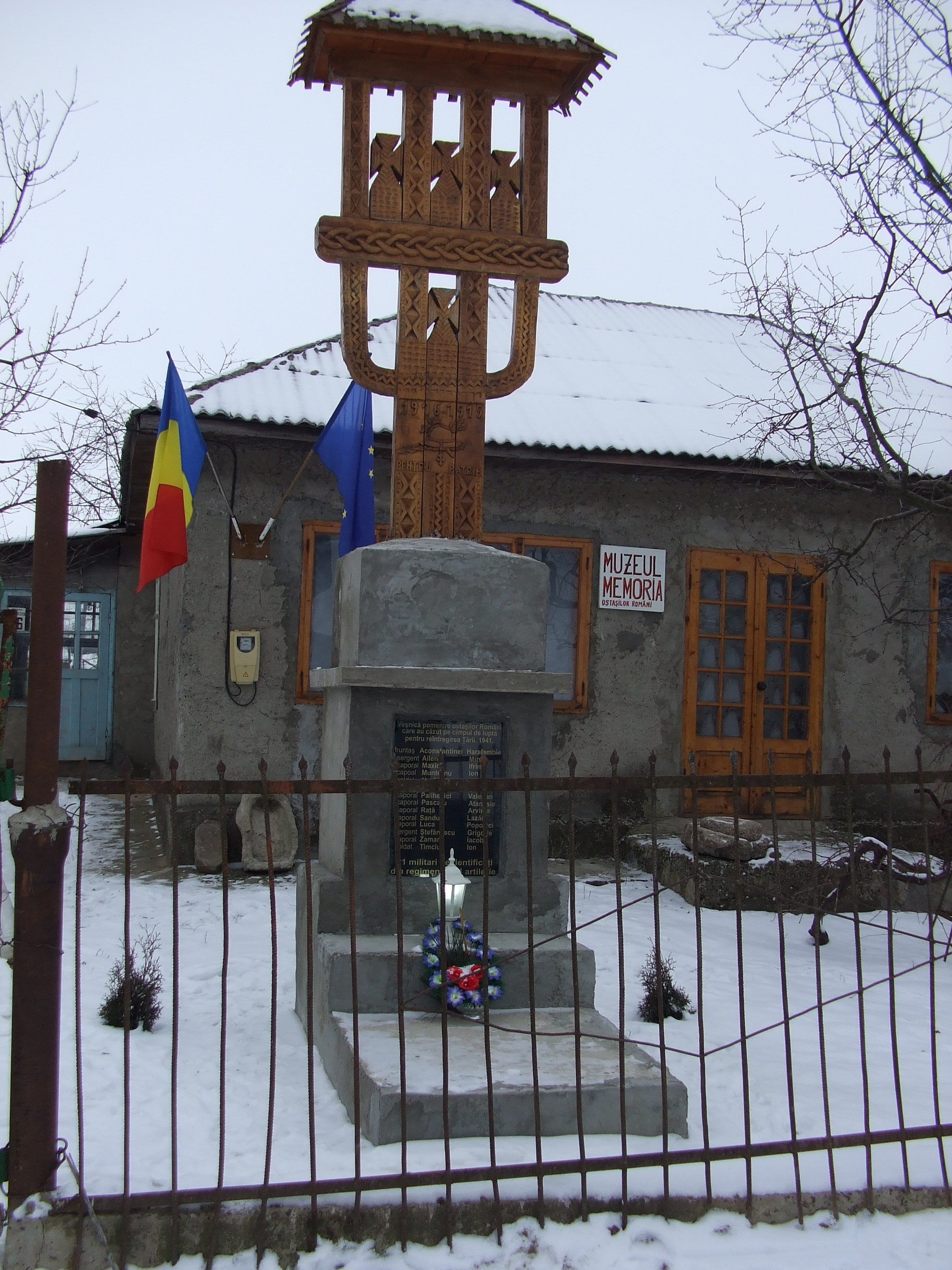 Memoria